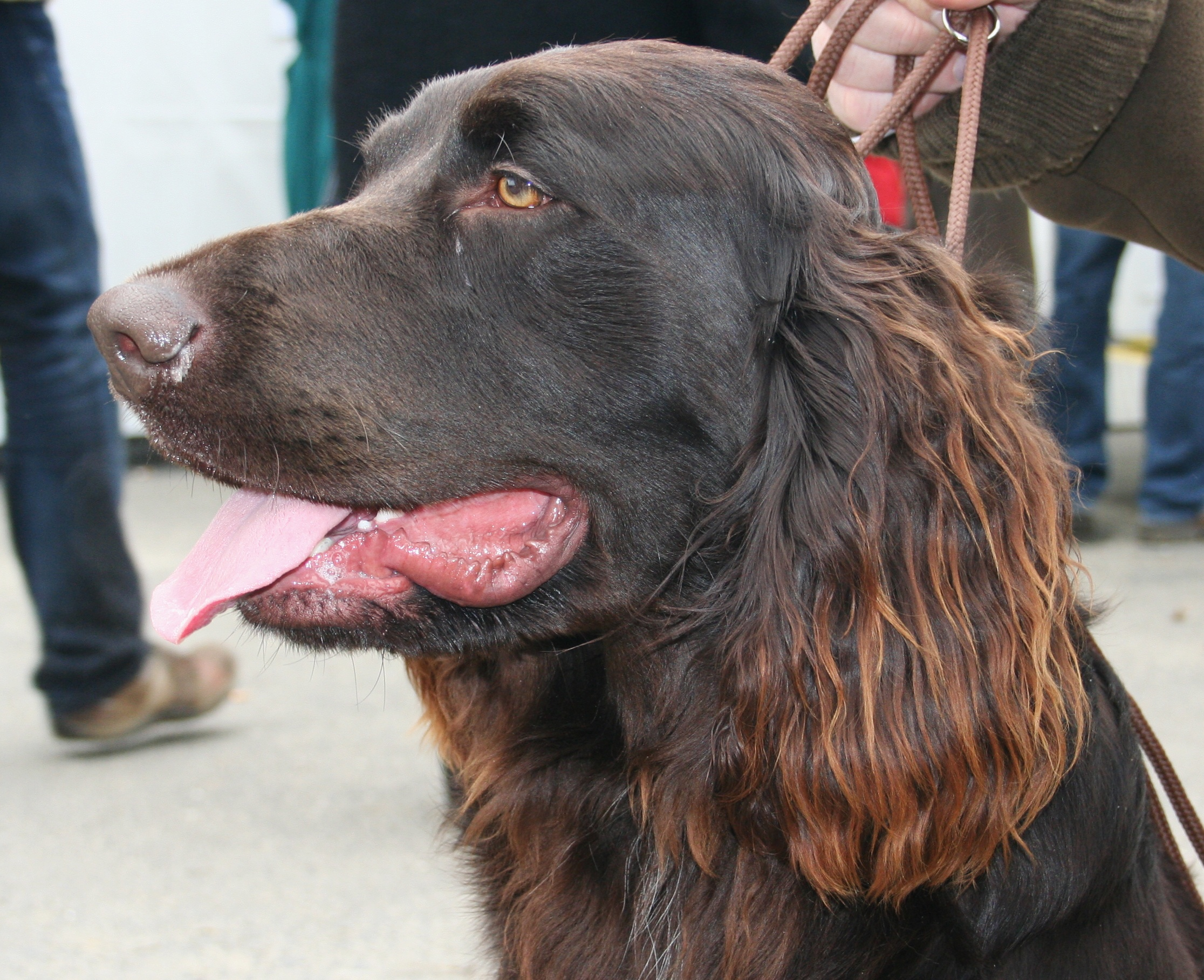 German Spaniel during the international dogs show in Katowice, Poland.